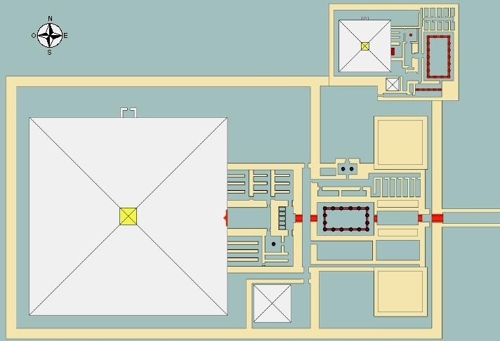 Plan of the pyramidal complex of Djedkare Isesi and his consort - 5th dynasty of Egypt at Saqqara